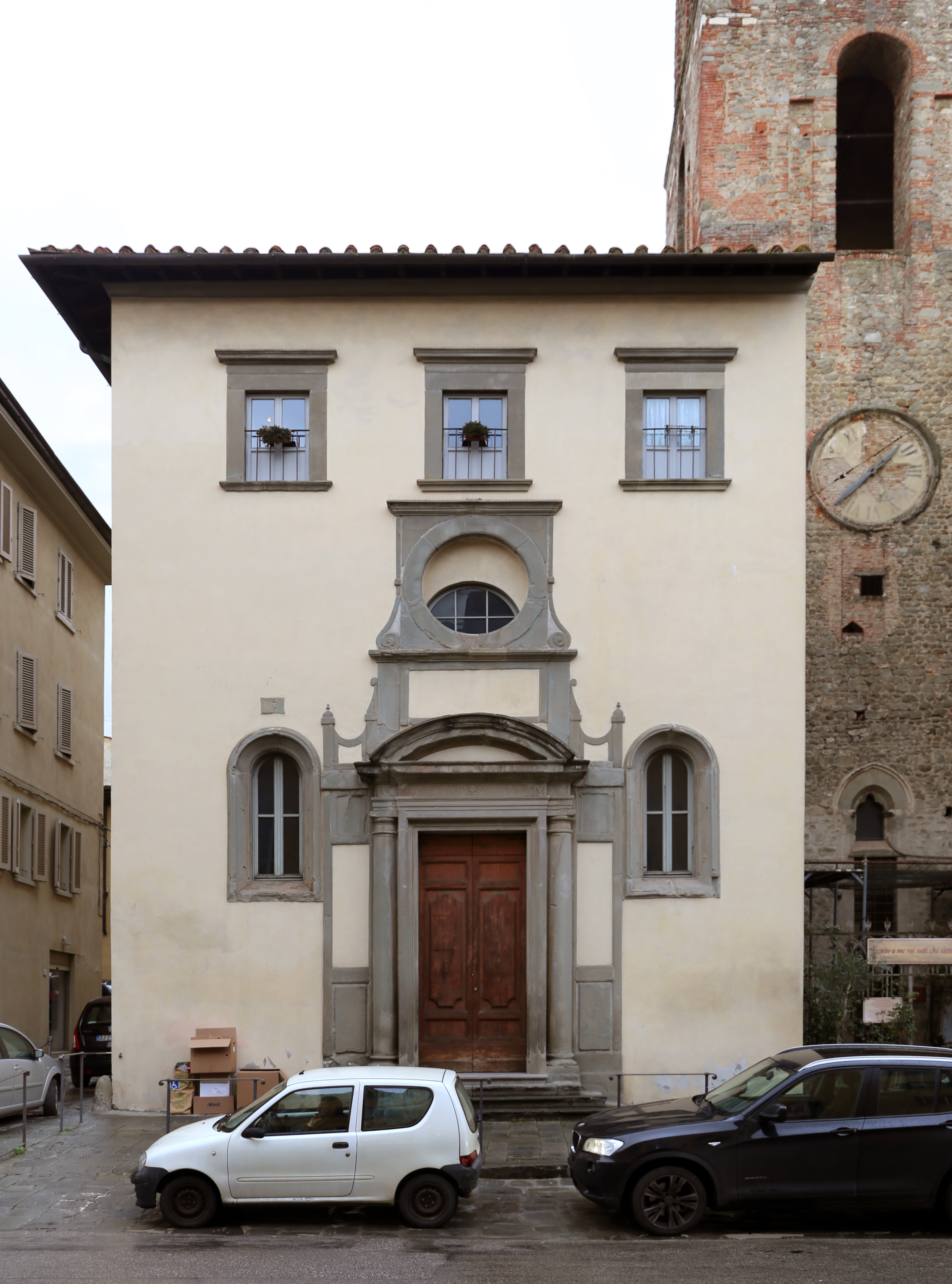 San Paolo (Pistoia)